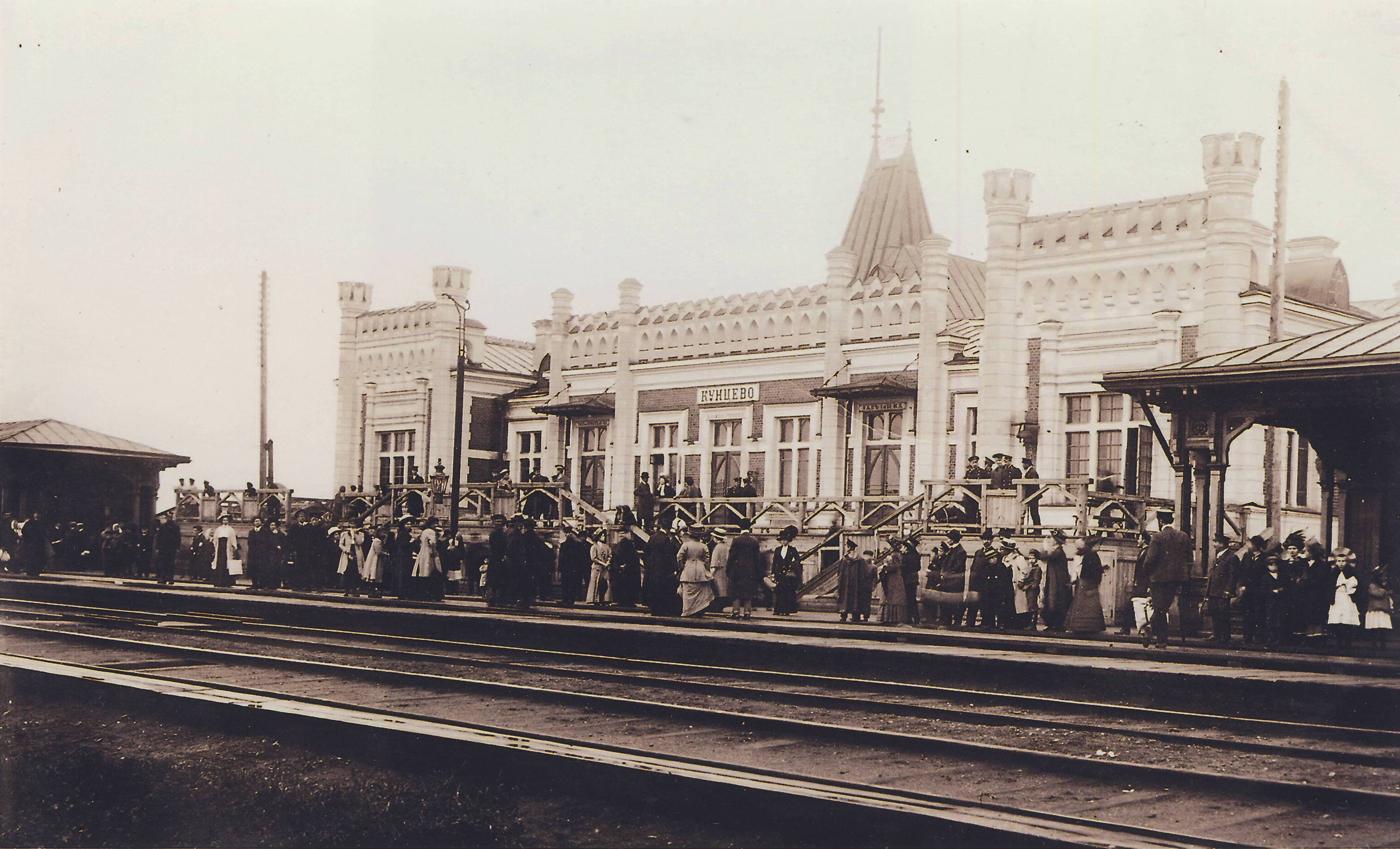 Kuntsevo train station